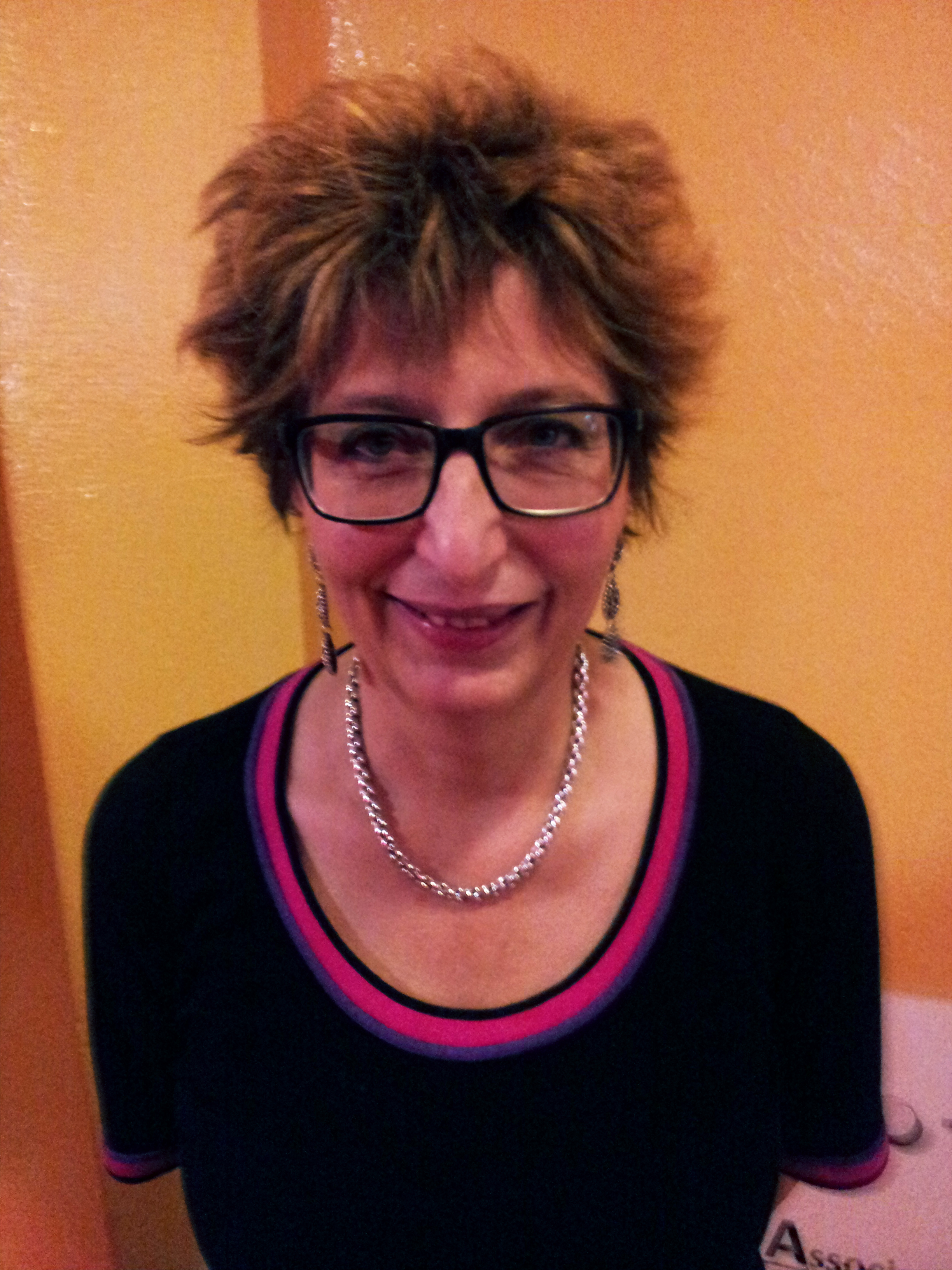 2015 Lausanne Billard Masters in Three-cushion. Venue: Casino de Montbenon, Lausanne-CHE Diane Wild, accomplished organizer and member of the CEB board